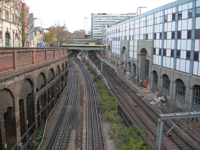 Railway Lines near Farringdon Station Picture taken from Clerkenwell Road. Farringdon Station can be seen about 200 metres away. Note the different types of railway track -- to the left, the London Underground ones with a live rail, to the right, the Capital Connect (once known as Thameslink) lines with the overhead power supply. At street level, Turnmill Street is to the left and on the right is the rear view of offices on Farringdon Road.